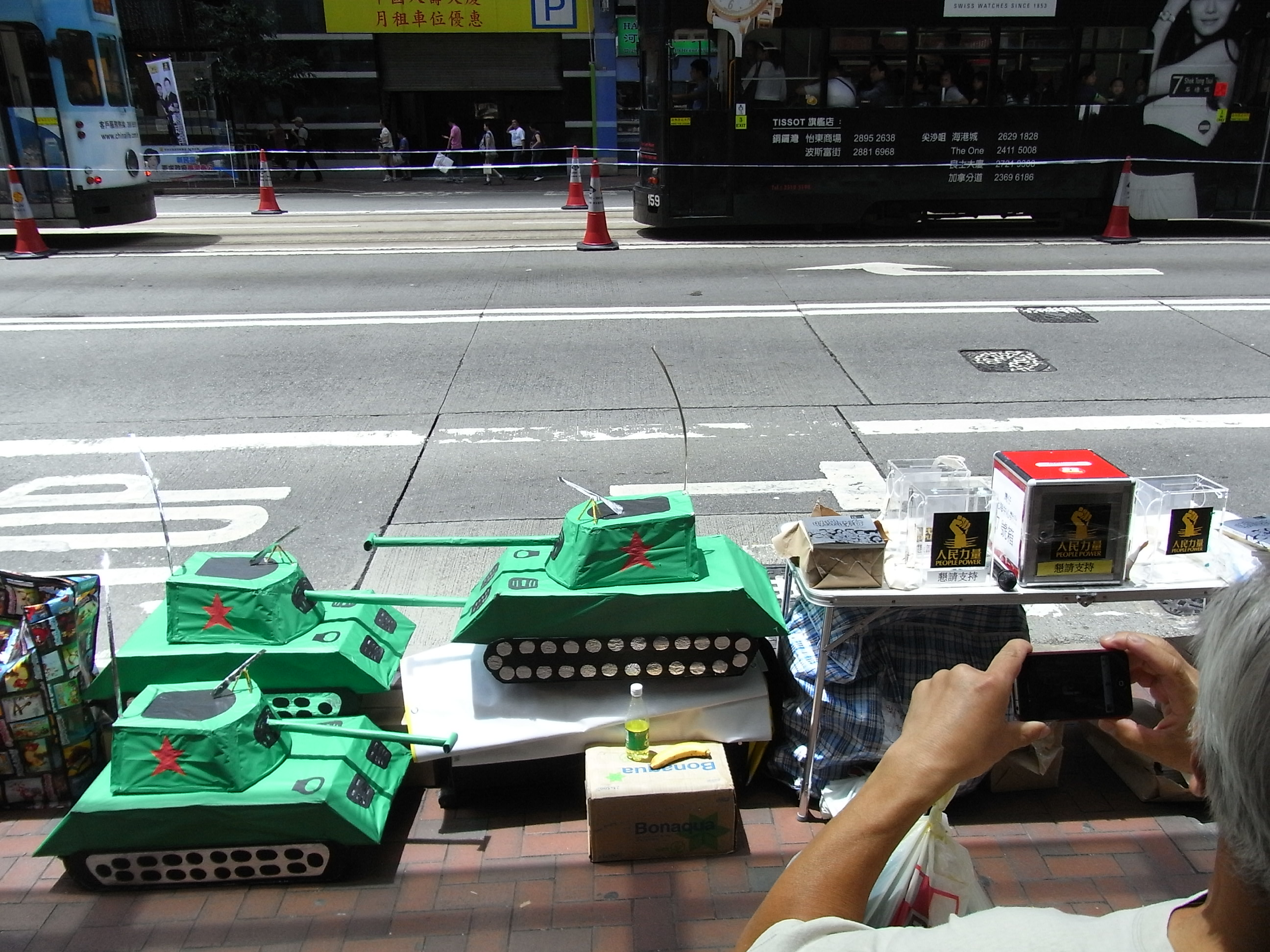 灣仔 軒尼詩道, Hennessy Road, Wan Chai, Hong Kong